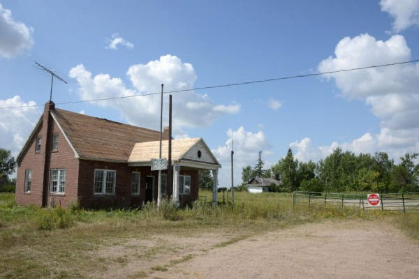 Abandoned US Border inspection station in Northgate North Dakota